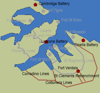 Forts of Valletta, Malta